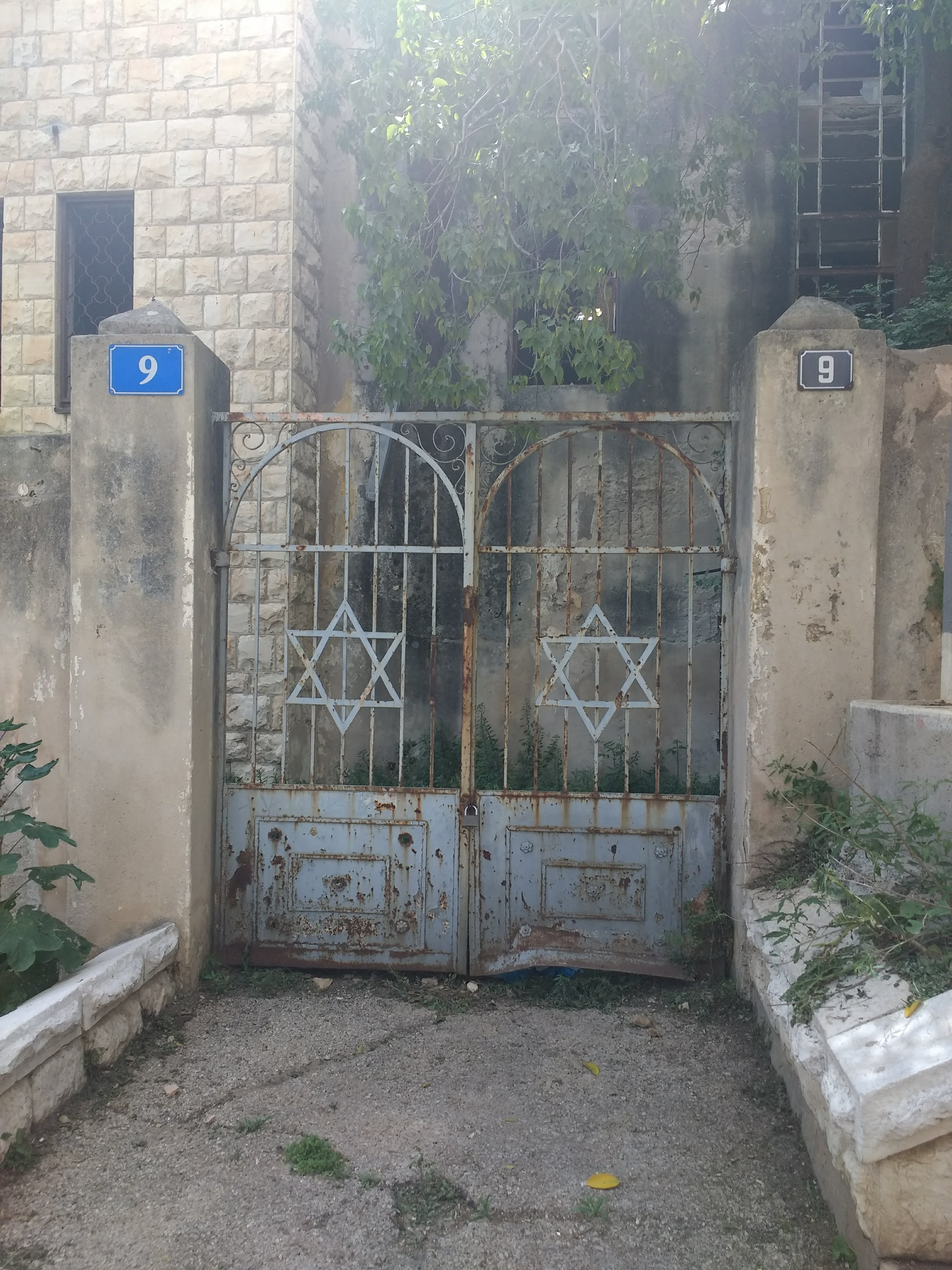 Front gate of Hadrat Kodesh Synagogue. The building is designated a national heritage building. As of 2018, it is abandoned.